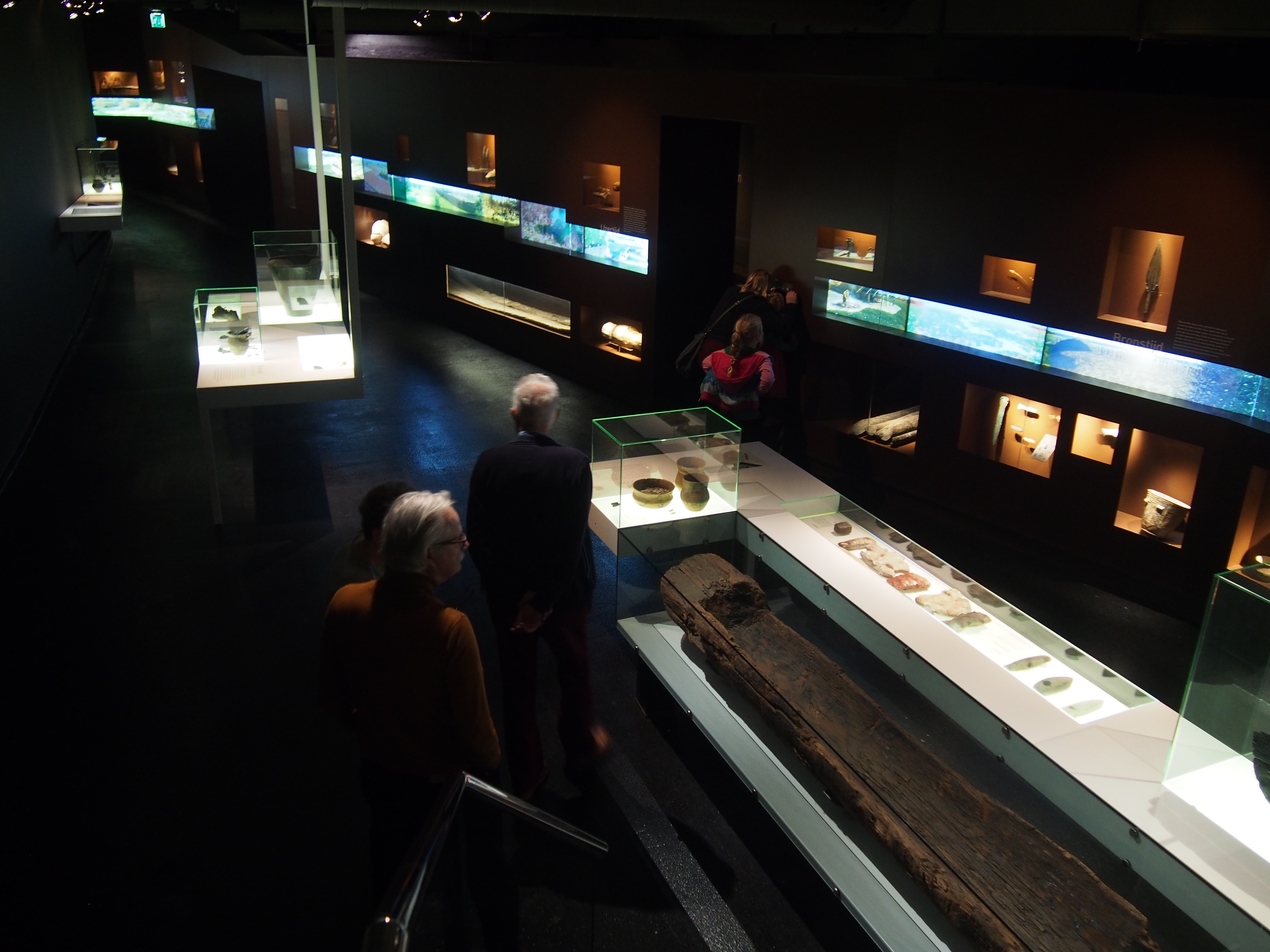 The prehistoric antiquites room in Drents Museum. Bottom right can be seen the Pesse Canoe, the oldest surviving canoe in the world.